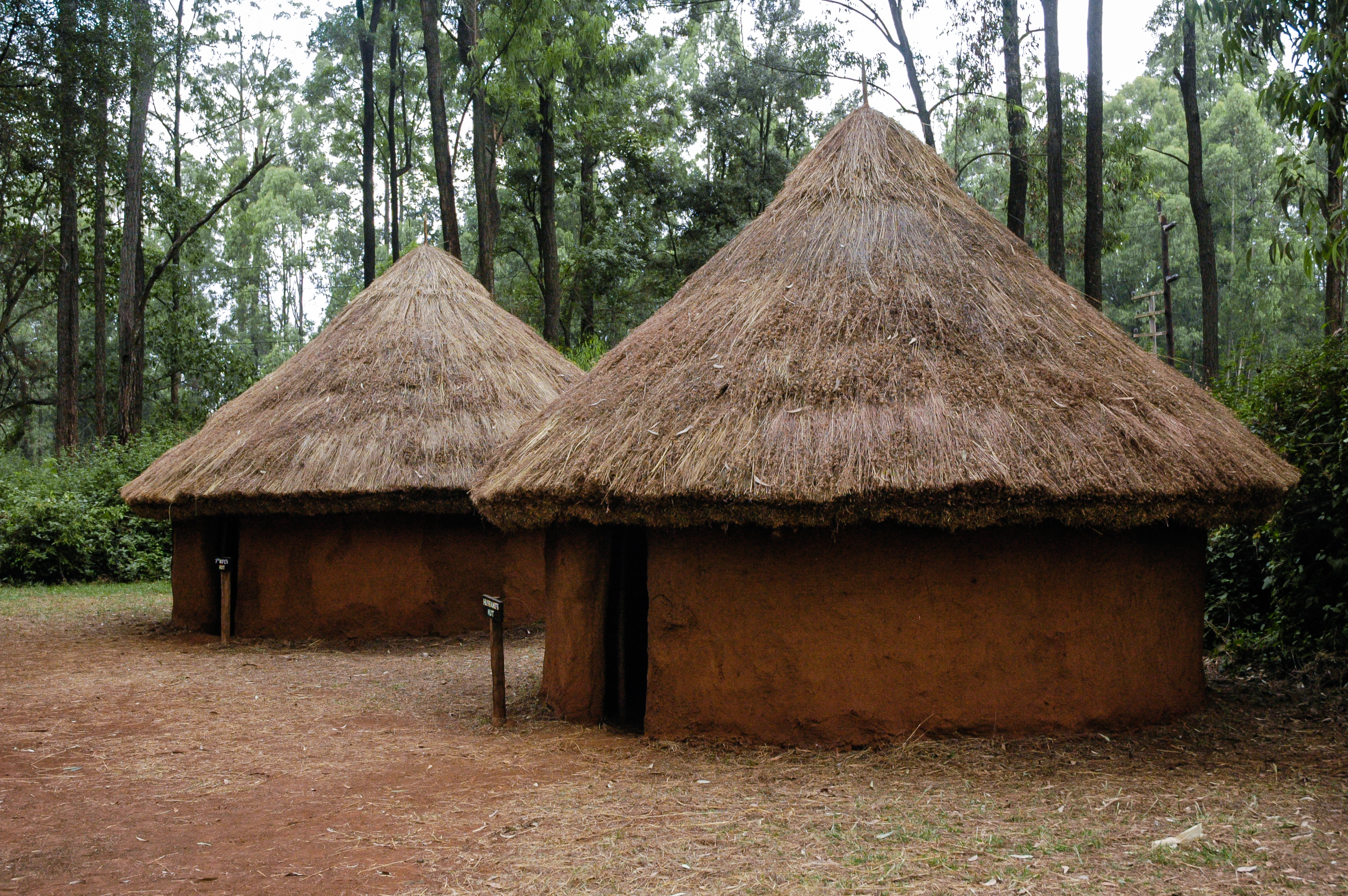 Husband`s hut in Kamba village at Bomas of Kenya near Nairobi